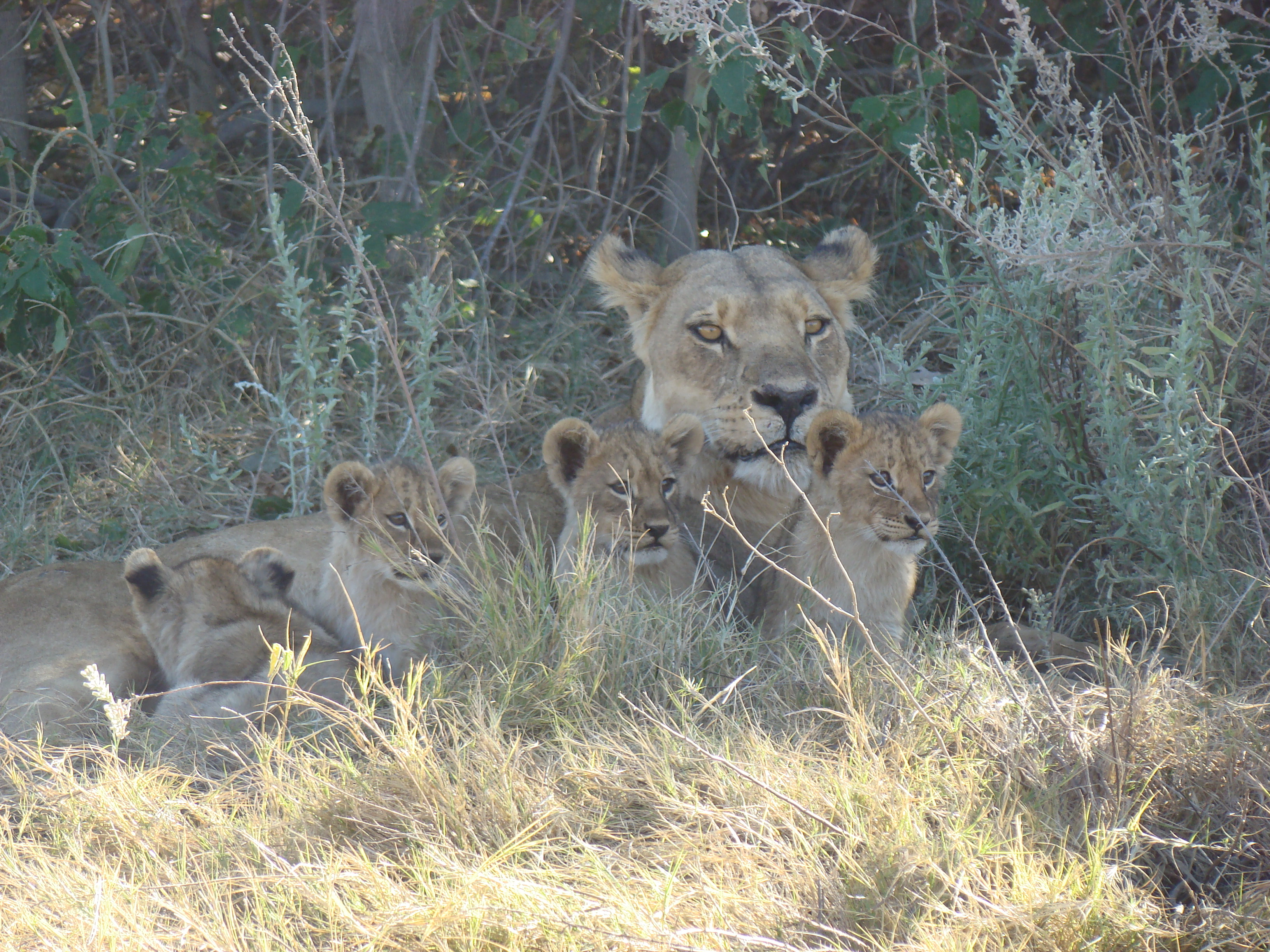 A lioness and four cubs (only two of them hers) in Moremi Game Reserve, Botswana.